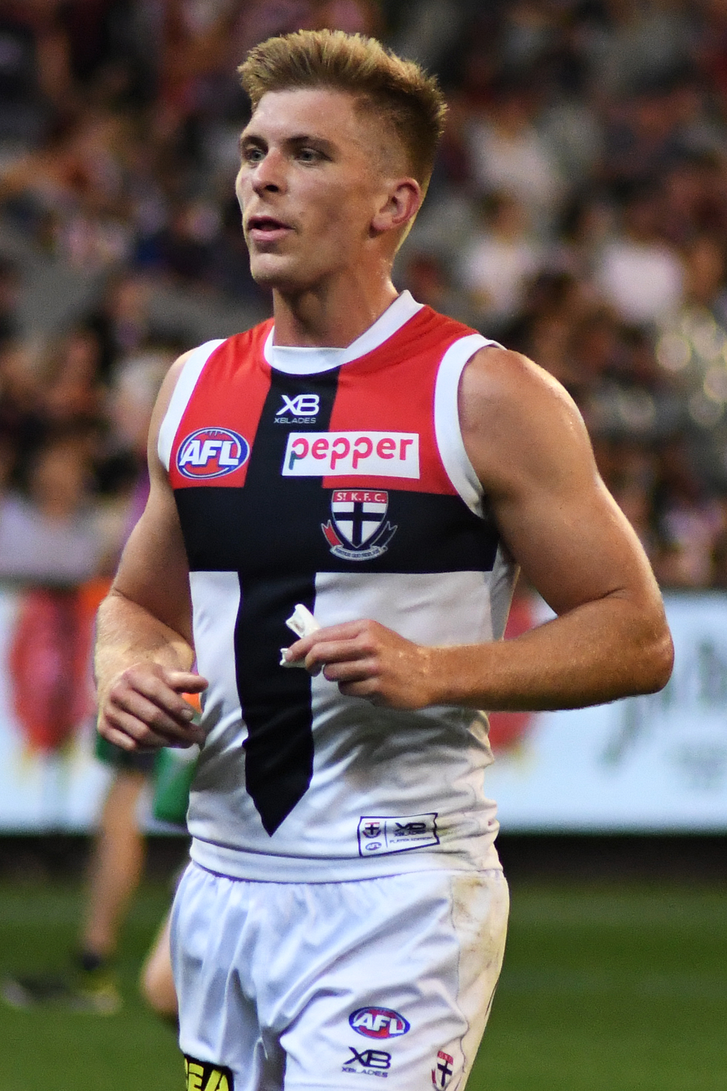 Sebastian Ross of St Kilda during the 2019 AFL round 5 match between Melbourne and St Kilda at the Melbourne Cricket Ground on Saturday, 20 April 2019 in Melbourne, Victoria.